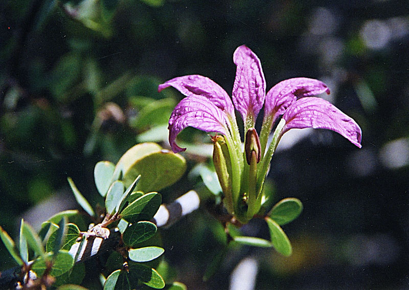 Originating in Central Mexico, under the name of Pata de Vaca Ramosa. Desert Botanical Garden, Phoenix. In context at